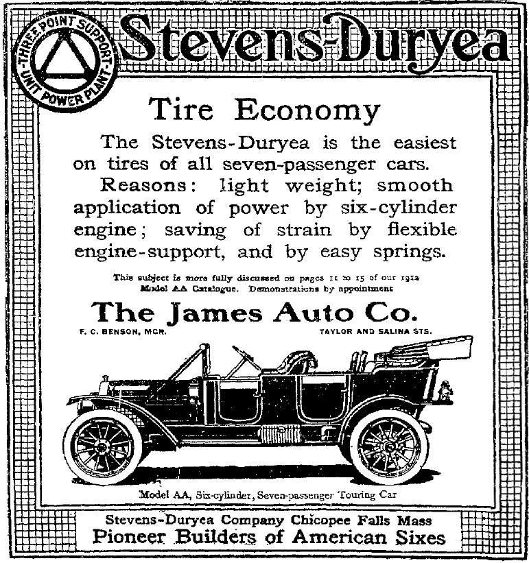 A 1912 Stevens-Duryea Advertisement